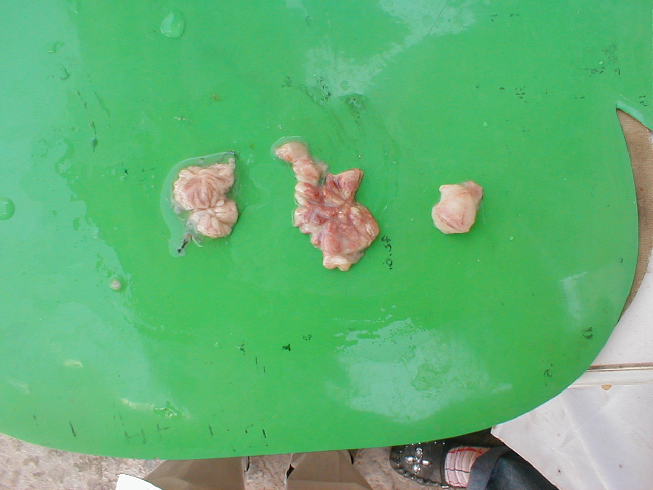 Gumboro disease : 3 bursa of Fabricius opened : left : chronic inflamation; middle : acute inflamation; right : normal Walon: Boursite å virûsse des poyes : 3 boûsses drovowes : a hintche : durant efouwaedje; å mitan : awiyant efouwaedje; a droete : normå